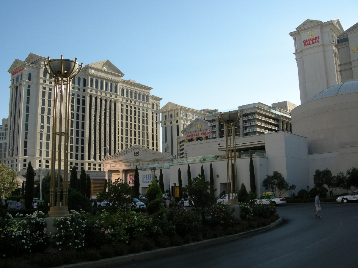 Caesar's Palace, Las Vegas, Outside view (day)